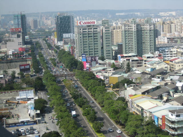 Overlooking Taichunggang Road from Shin-Kong Mitsukoshi in Taichung City,Taiwan.You can see the plateau of Dadu in the distance.